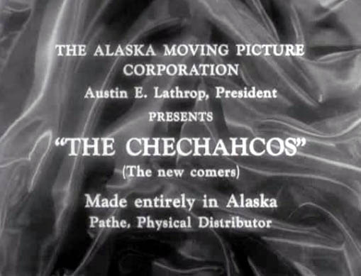 Screenshot from The Chechahcos, an American silent film recorded entirely in Alaska.